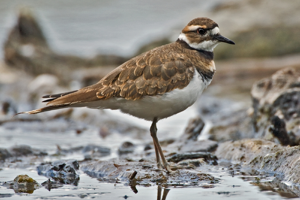 Killdeer, Albert Head Lagoon, Metchosin, Near Victoria, British Columbia